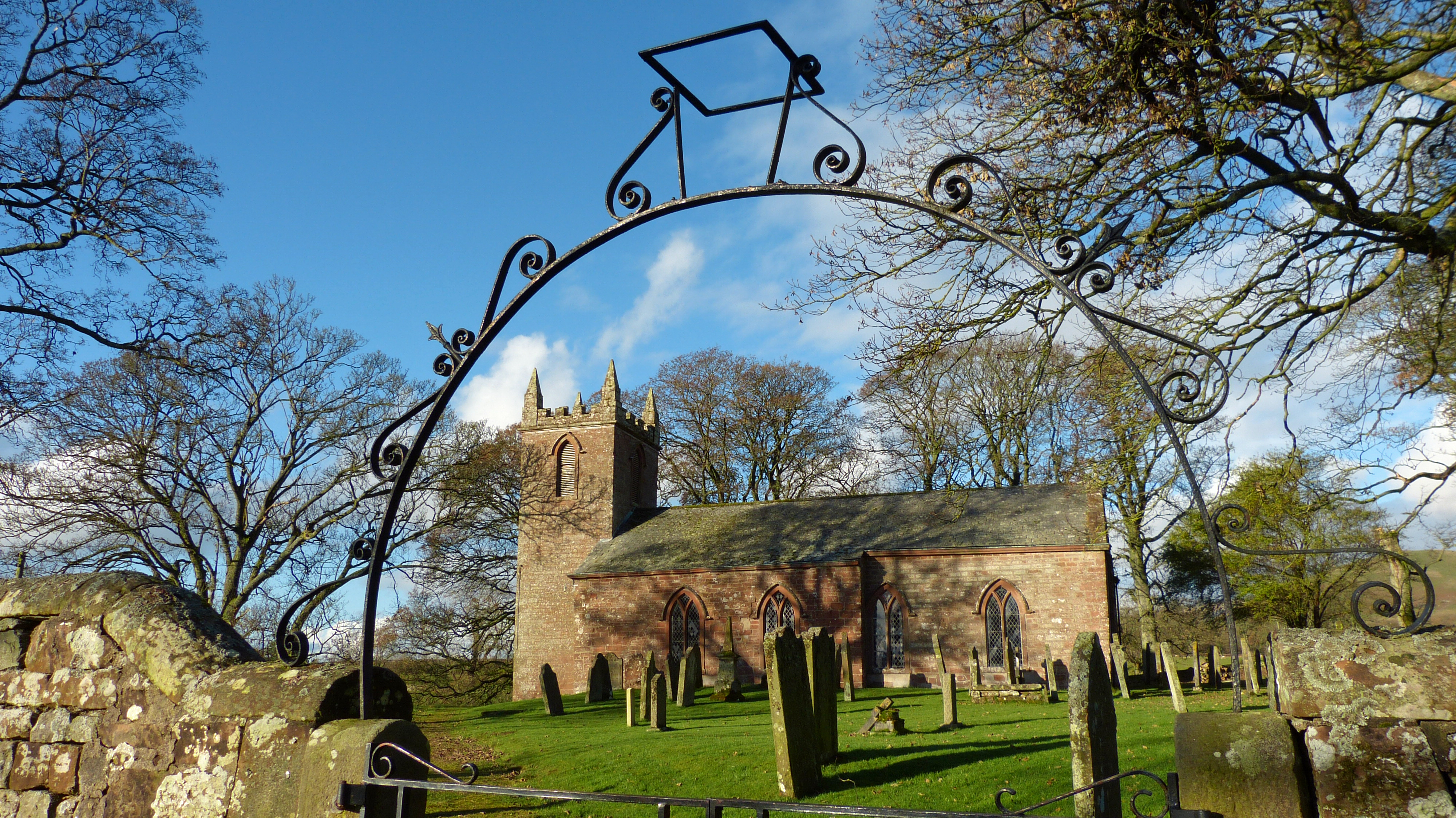 St Cuthbert's parish church, Dufton, Cumbria, England, seen from the south